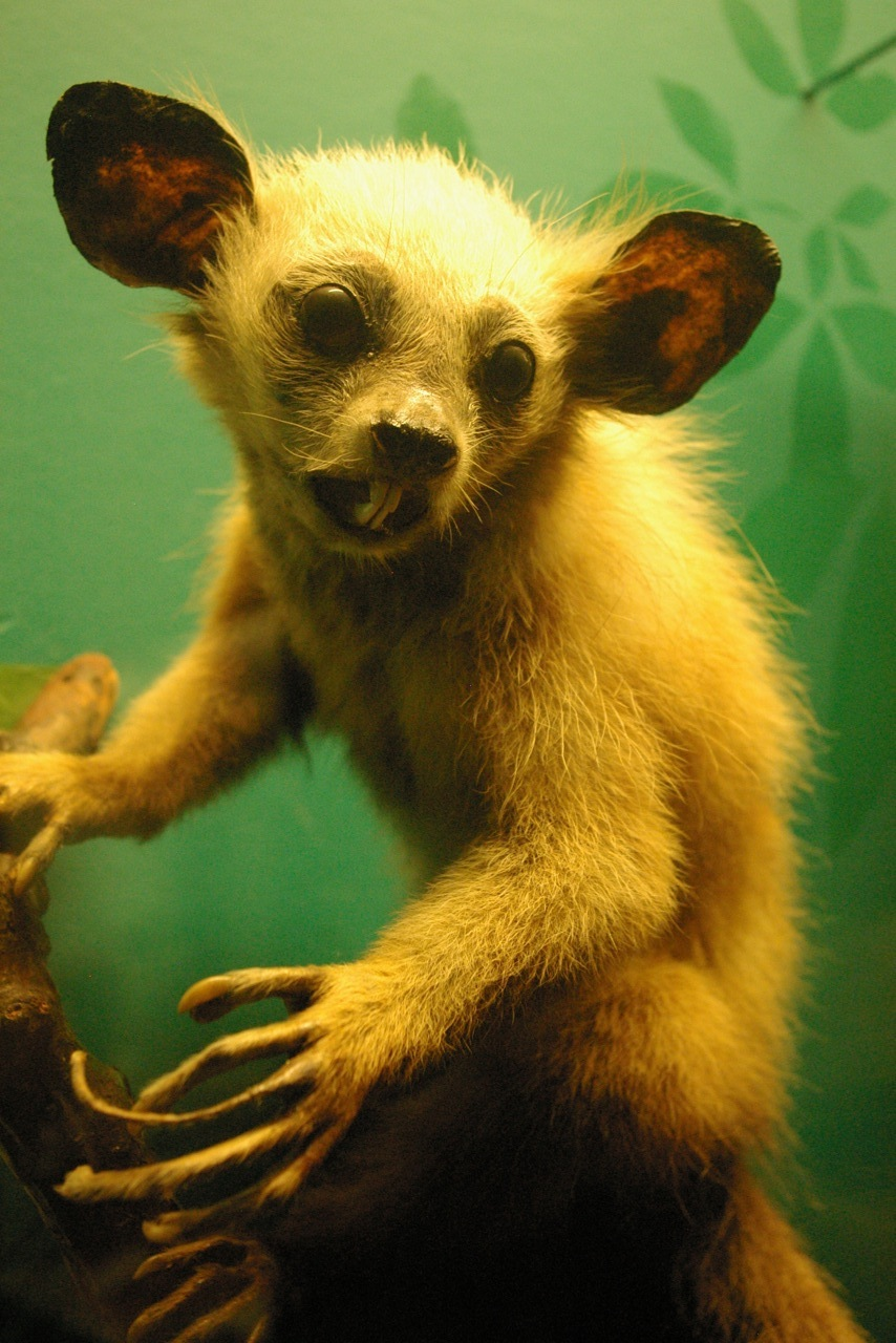 Madagascar primate in the Chicago Field Museum